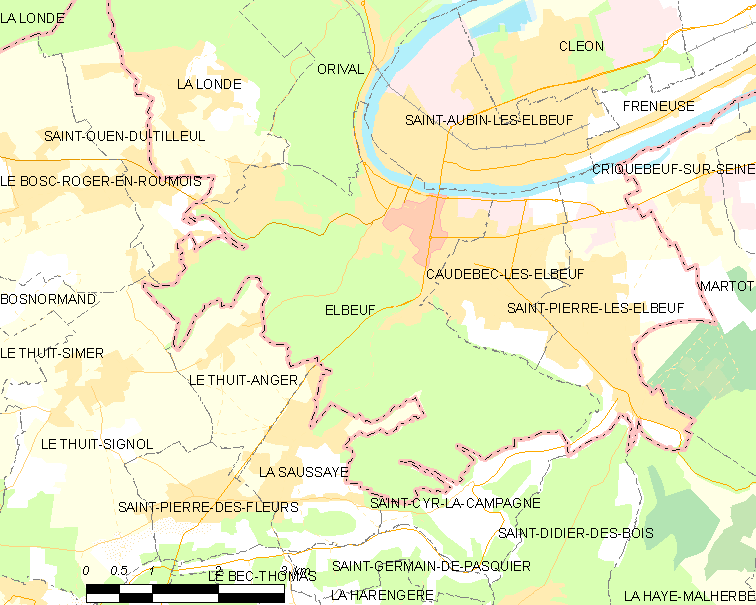 Map of French municipality Elbeuf